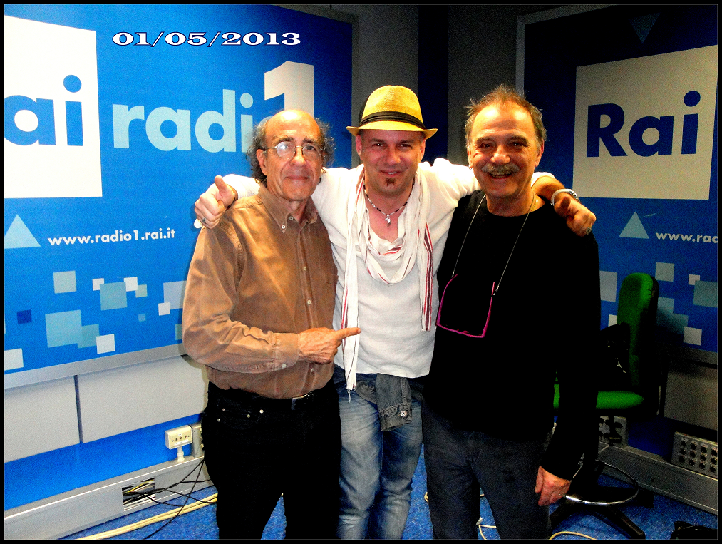 Max Arduini to Demo L'Acchiappatalenti, Radio Uno Rai (2013)